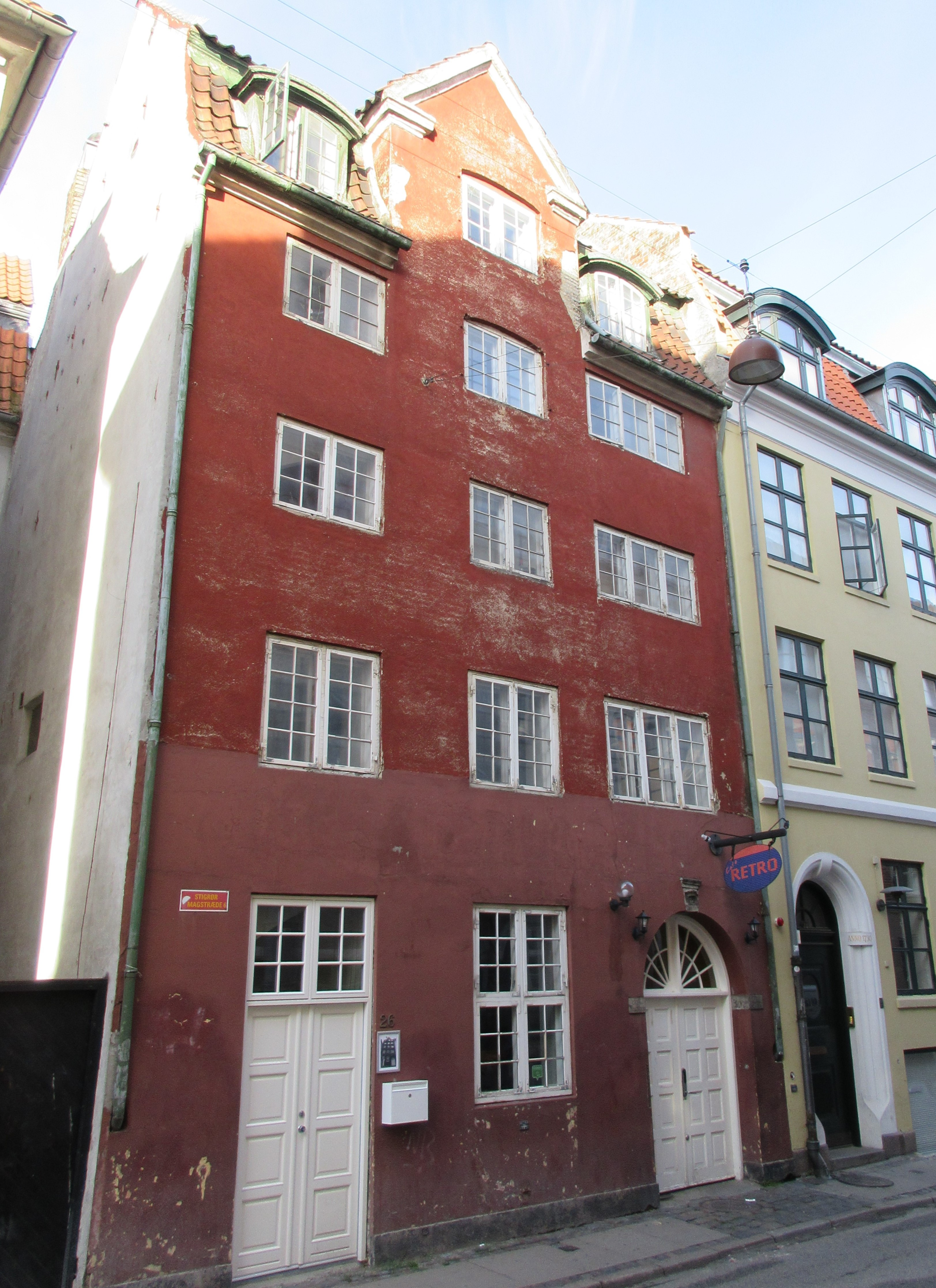 Knabrostræde 26 in Copenahgen, Denmark